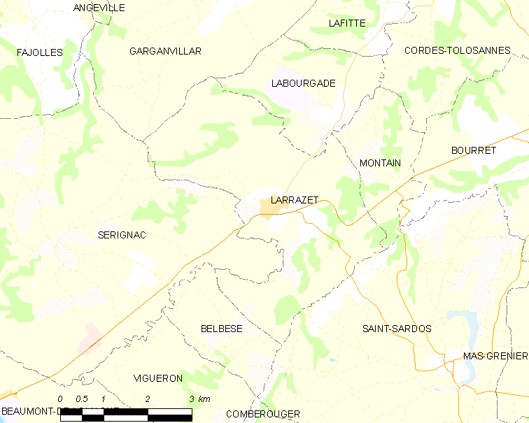 Map of French municipality Larrazet